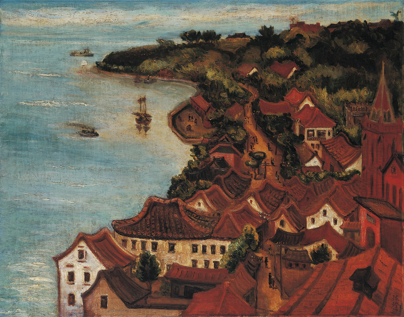 Sunset in Tamsui, by Chen Cheng-po